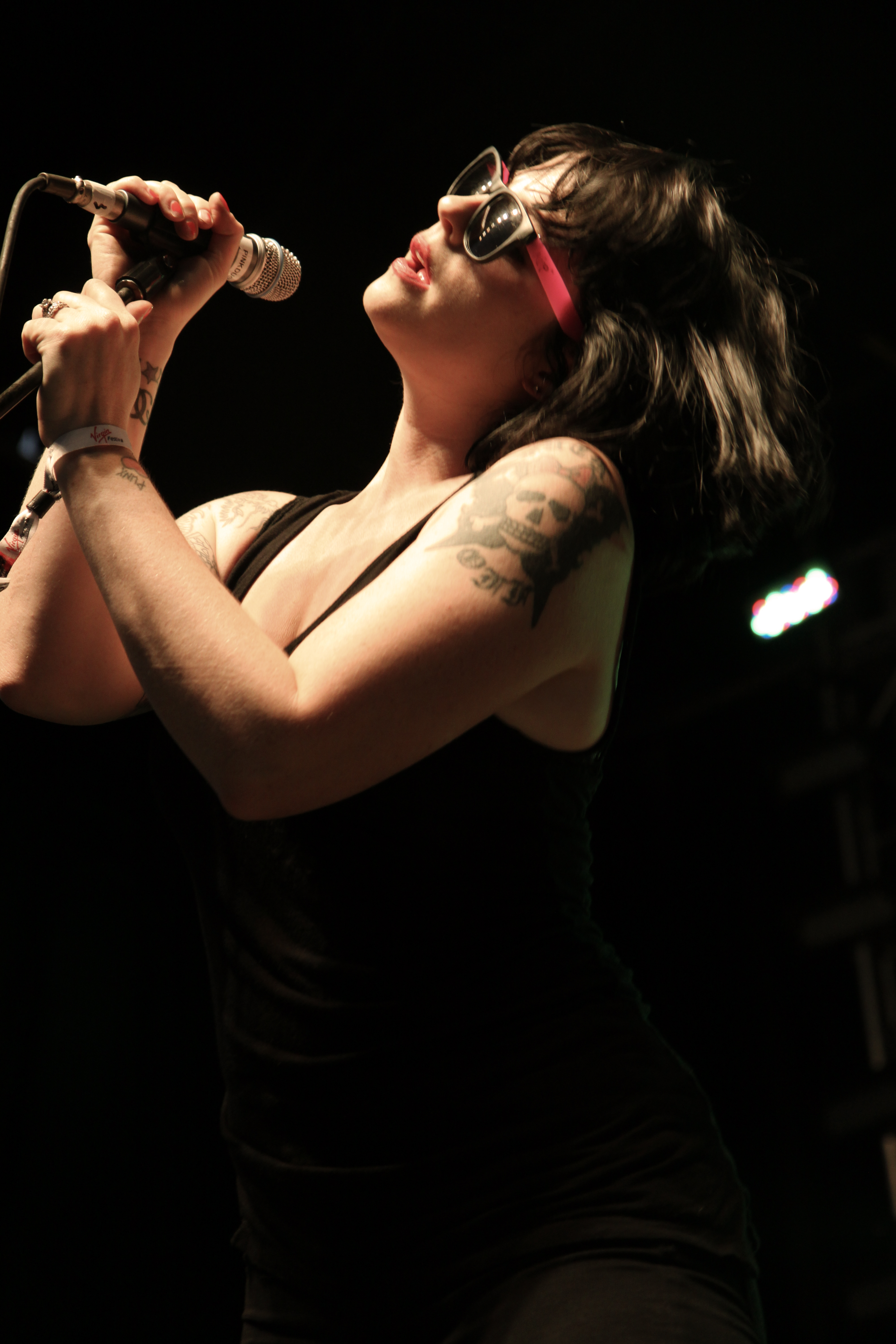 Brody Dalle playing with Spinnerette at the 2009 Deer Lake Virgin Festival